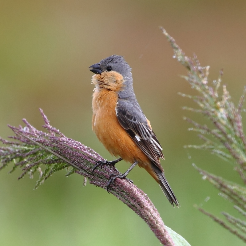 Tawny-bellied Seedeater (male) at Mogi das Cruzes - SP - Brazil